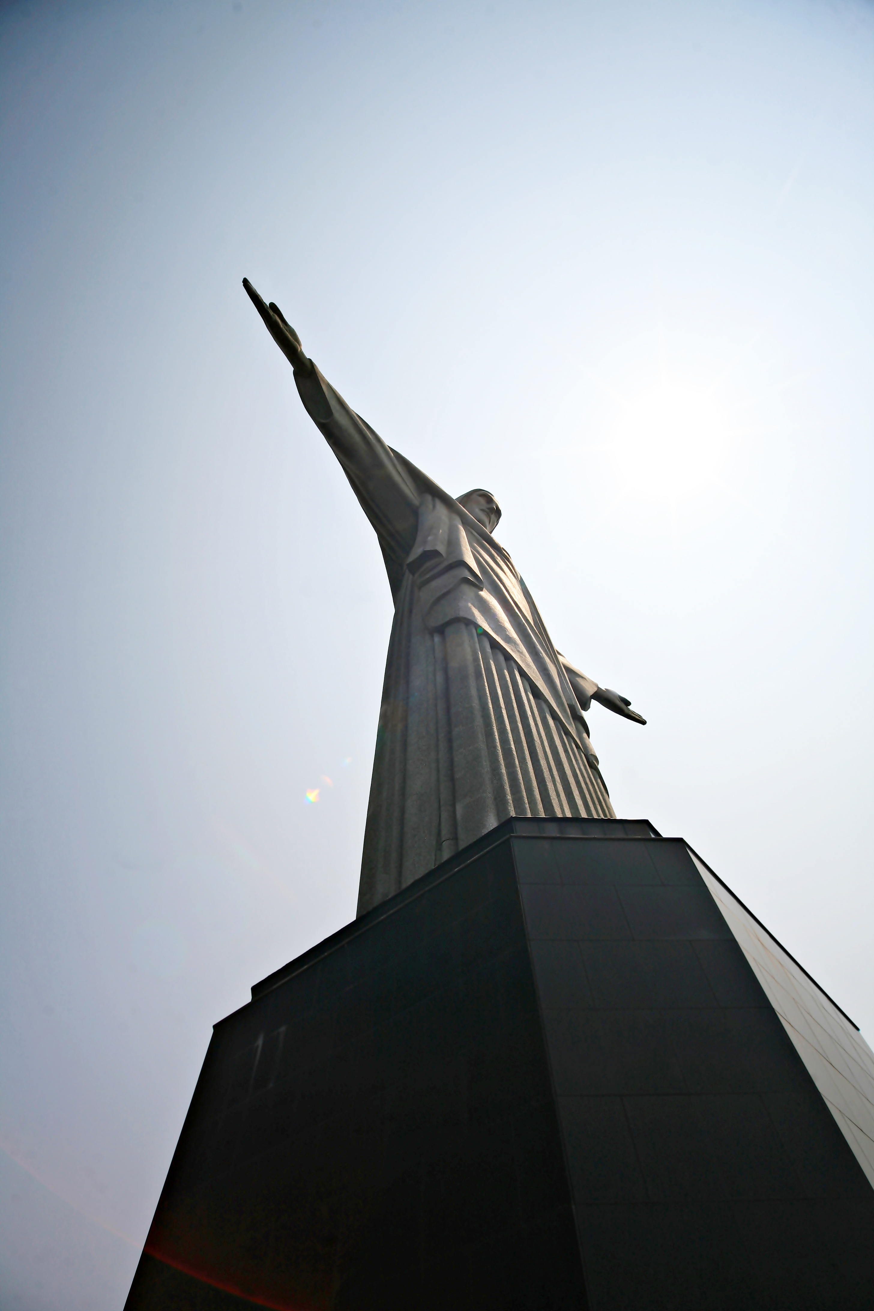 Christ the Redeemer statue photographed from its base, on Corcovado Mountain. This statue has become the icon of Rio de Janeiro.